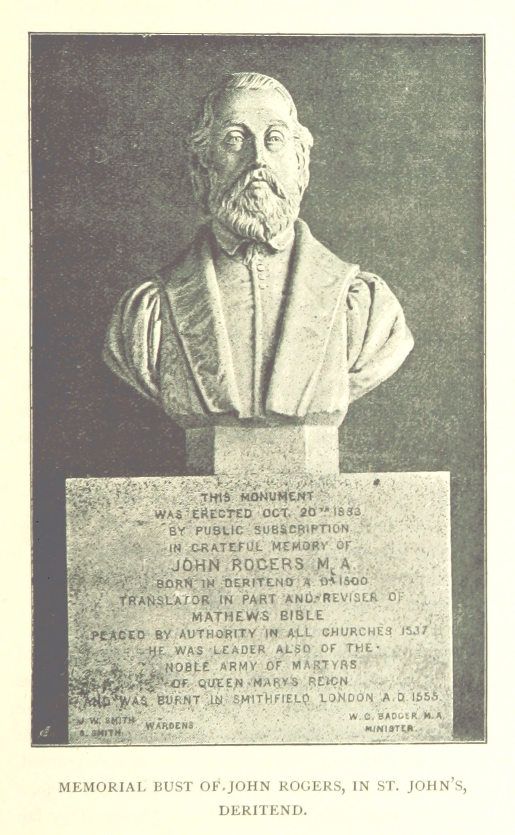 Bust of John Rogers, Bible editor and martyr, at St John's Deritend, Birmingham, England. Image extracted from page 31 of The Making of Birmingham: being a history of the rise and growth of the Midland metropolis ... With ... illustrations, etc. Publisher: J. L. Allday', by Robert Kirkup Dent. Original held and digitised by the British Library. Copied from Flickr. Note: The colours, contrast and appearance of these illustrations are unlikely to be true to life. They are derived from scanned images that have been enhanced for machine interpretation and have been altered from their originals.